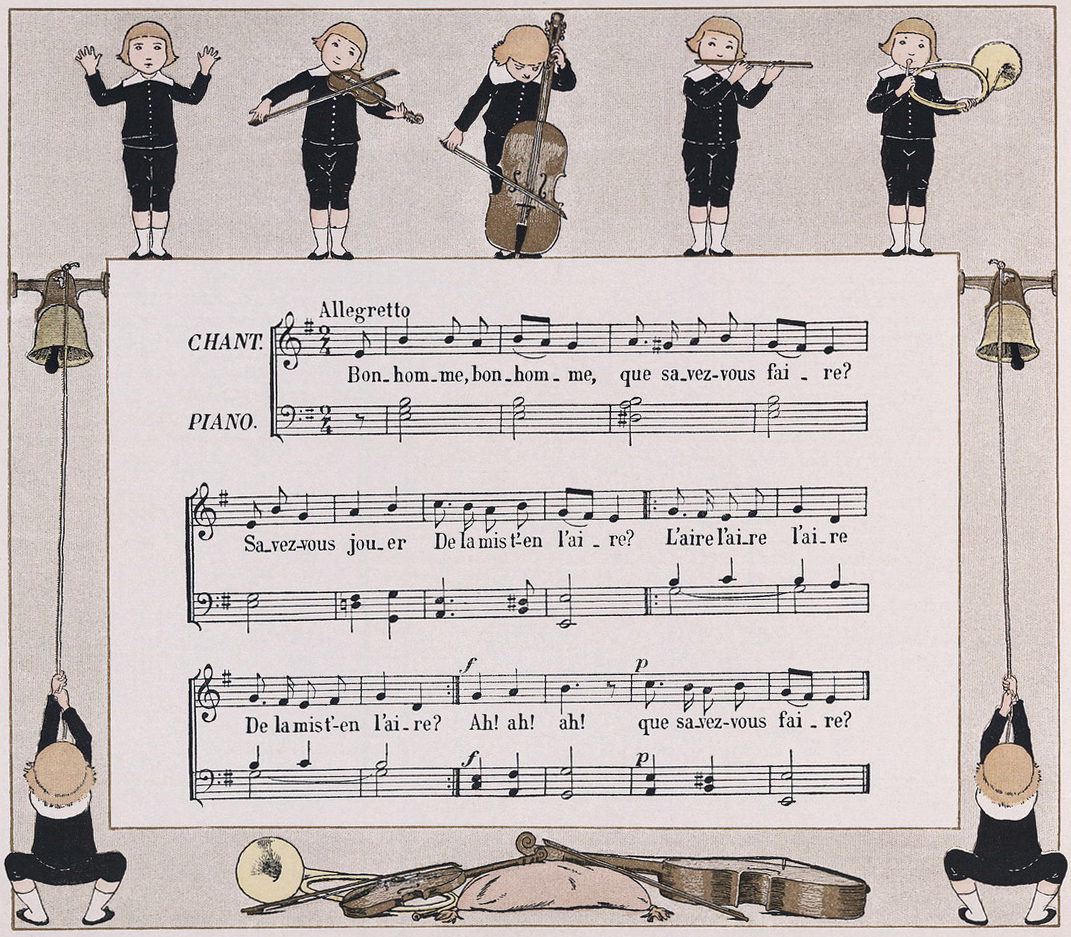 "La Mist' en Lare", (page 1 of 2) sheet music with illustration from a French children's book Vieilles Chansons pour les Petits Enfants: Avec Accompagnements (Old Songs for Small Children with Accompaniments).